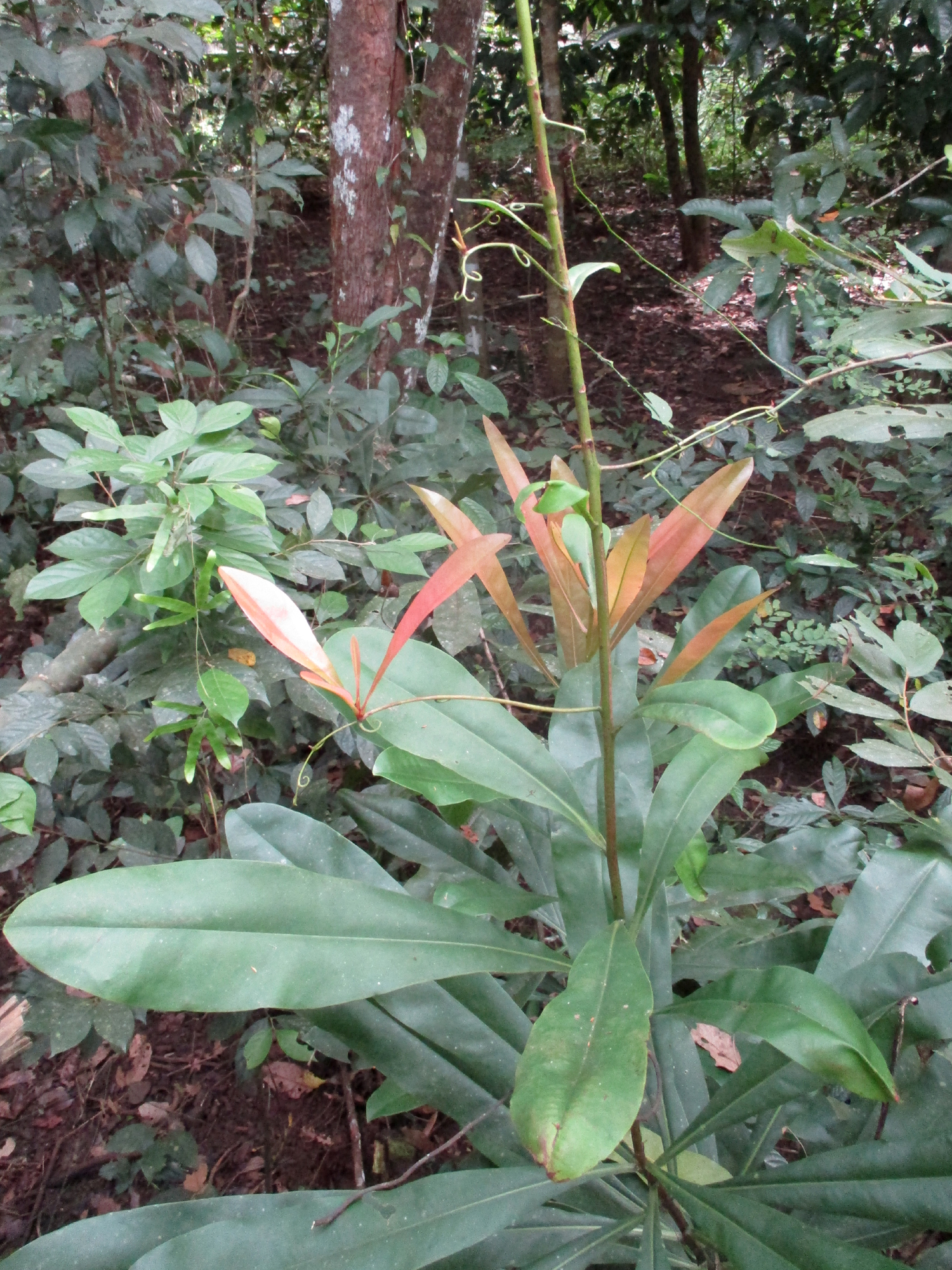 Ancistrocladus tectorius leaves and tendrils in Cat Tien National Park - Roy Bateman